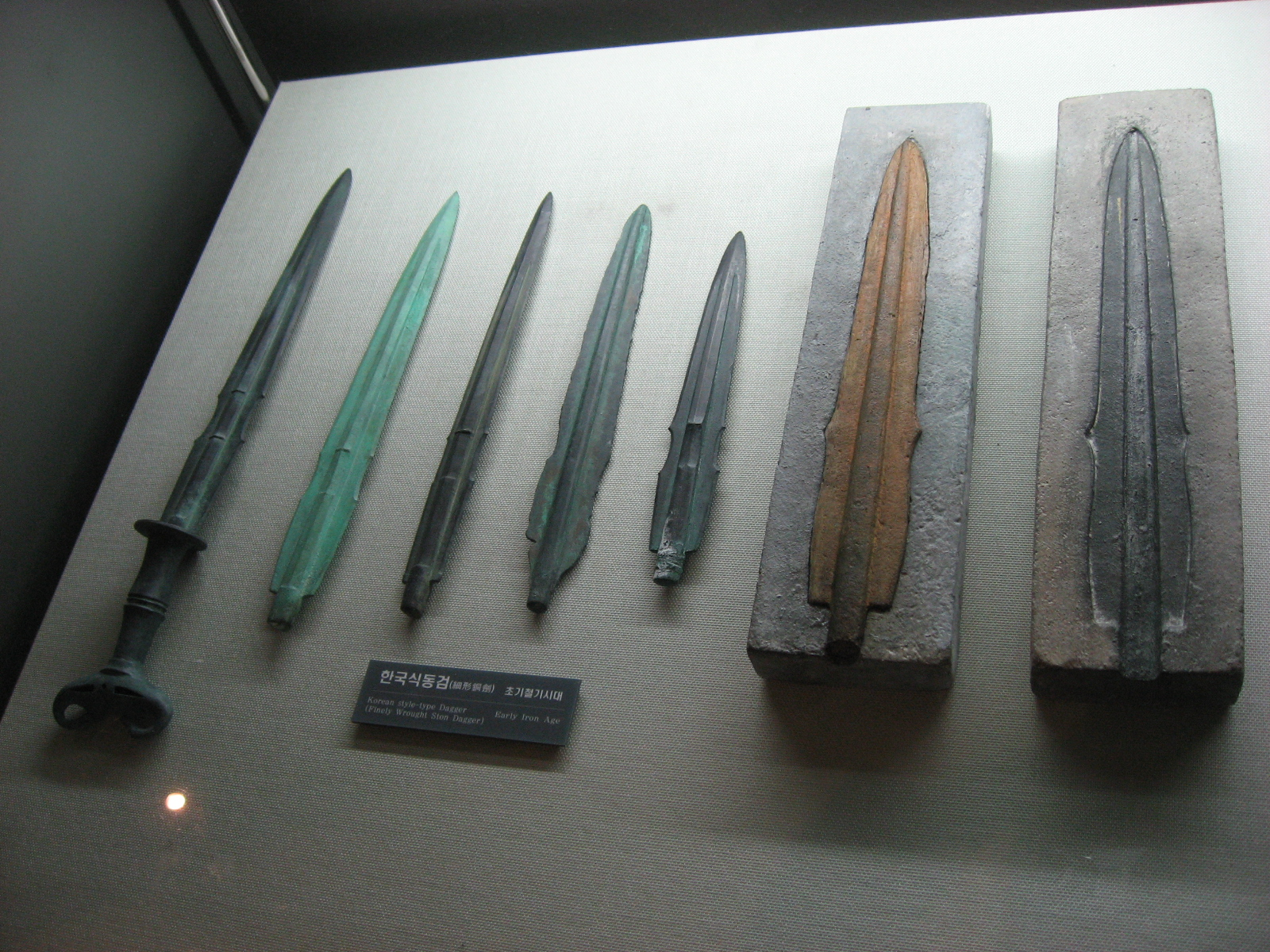 Korean daggers dated to the early Iron Age.